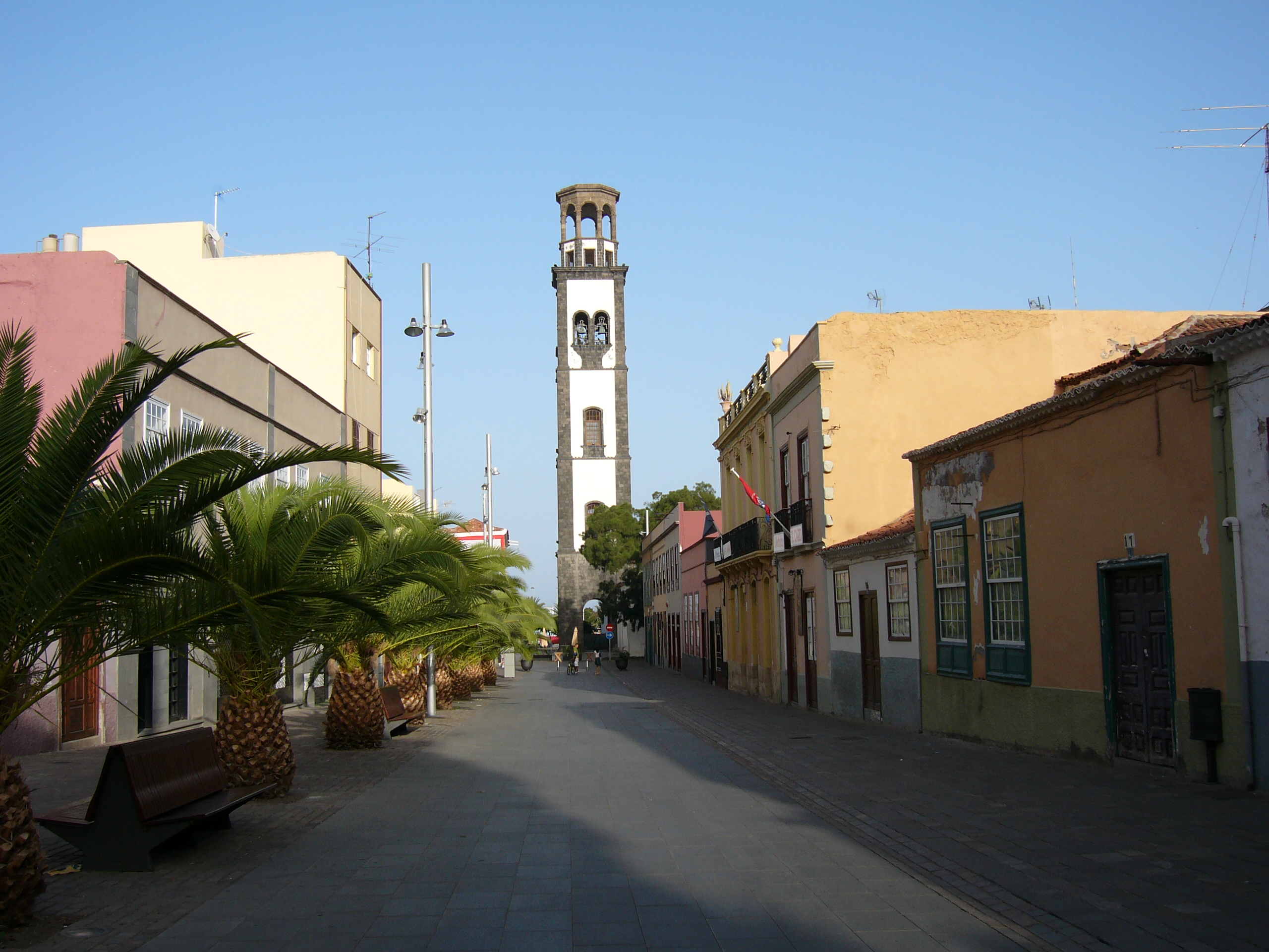 Tower of the Iglesia de ntra. sra. de la concepción in Santa Cruz de Tenerife, Tenerife, Canary Islands, Spain